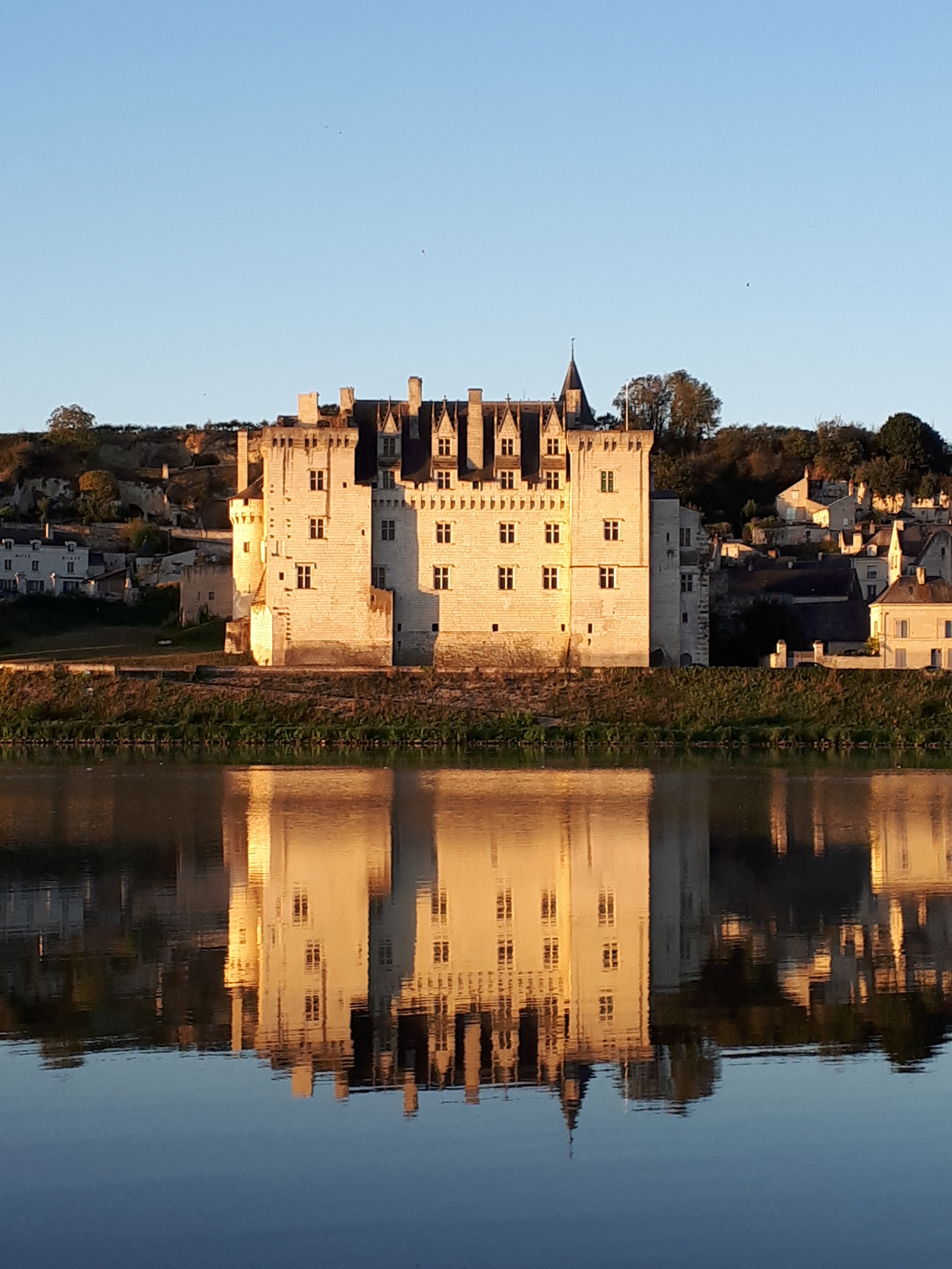 Château de Montsoreau-Museum of contemporary art Loire Valley Unesco World Heritage site in France